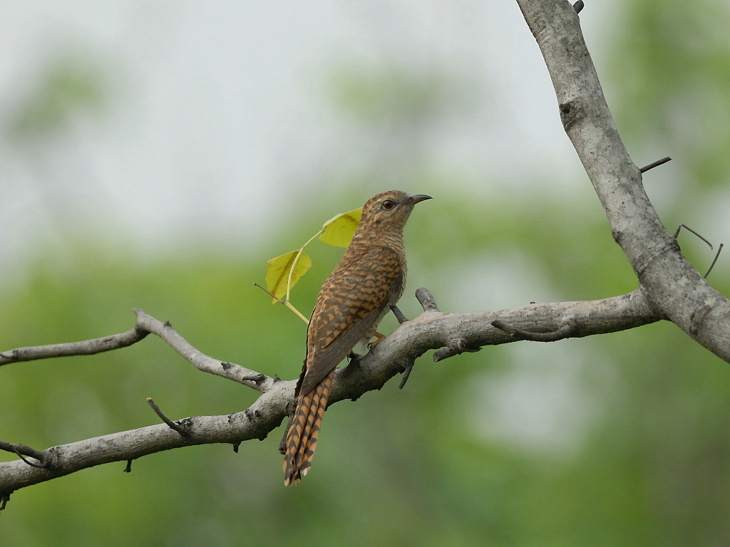 Female, taken at Suan Rotfai, Bangkok.